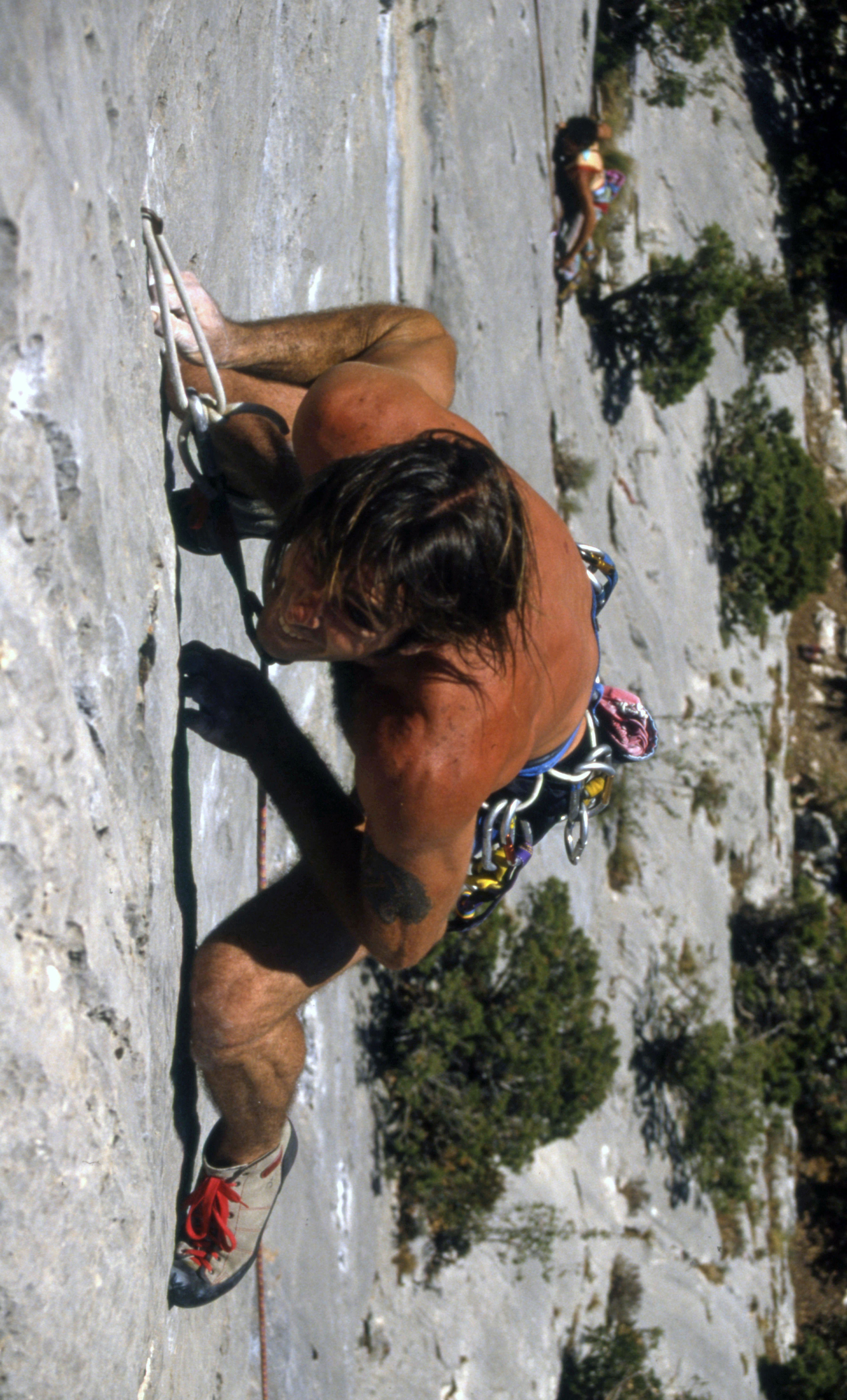 Sport-climber Jesse Guthrie, Verdon South France